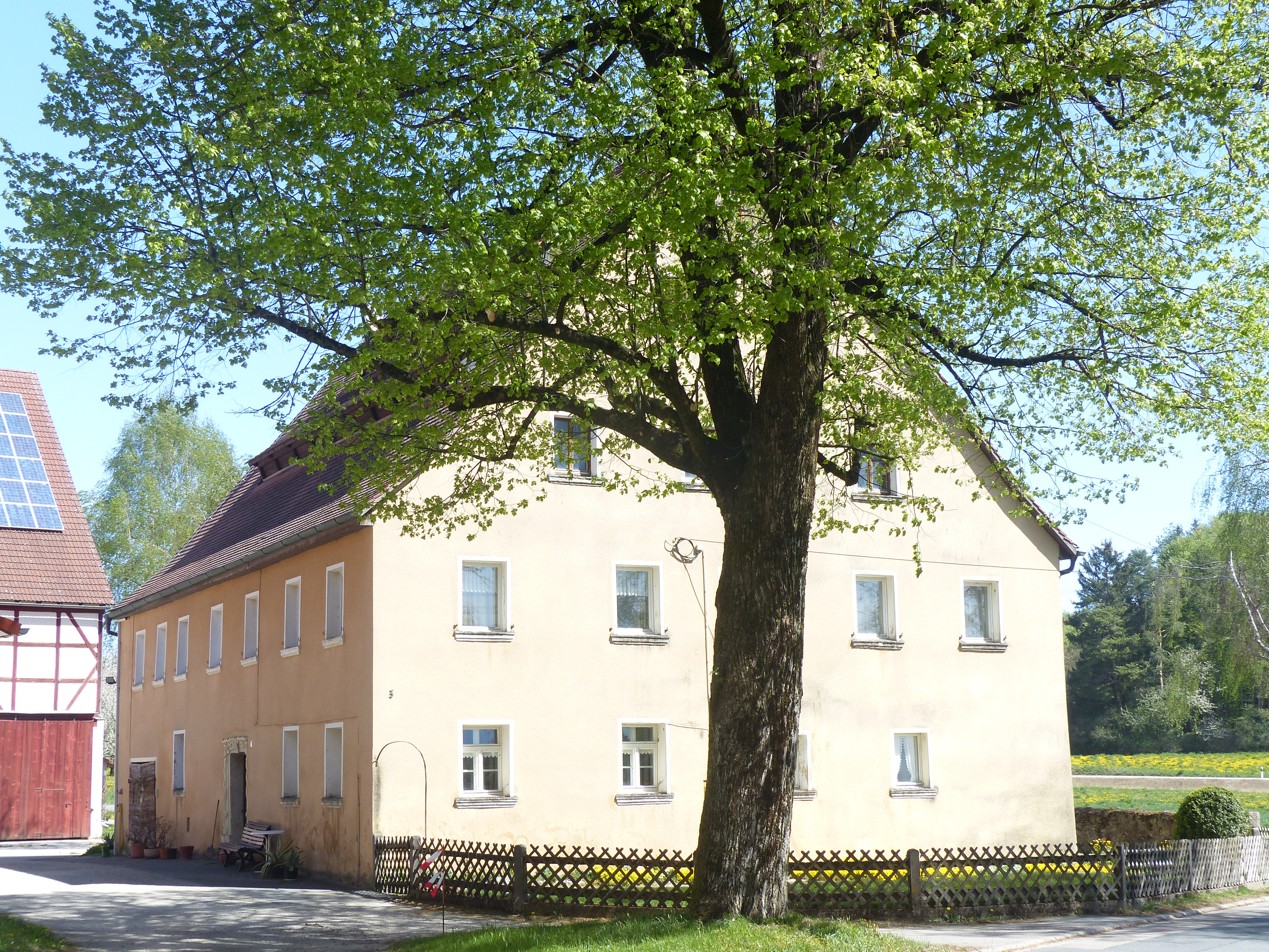 The farmhouse with the house number 3 in the hamlet Erlastrut, a district of the municipality Hiltpoltstein